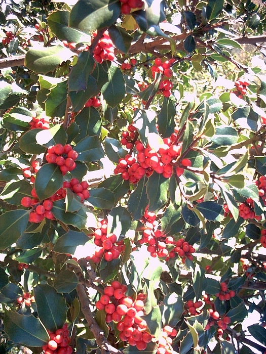 A work release by Francisco Javier Martin Lopez Puertollano, 19 December 2005, Ilex aquifolium Cities of Spain, donated to Wikipedia